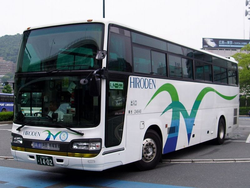 Hiroden Bus 24648 "Isaribi" Hino KL-RU1FSEA at Hiroshima Sta.